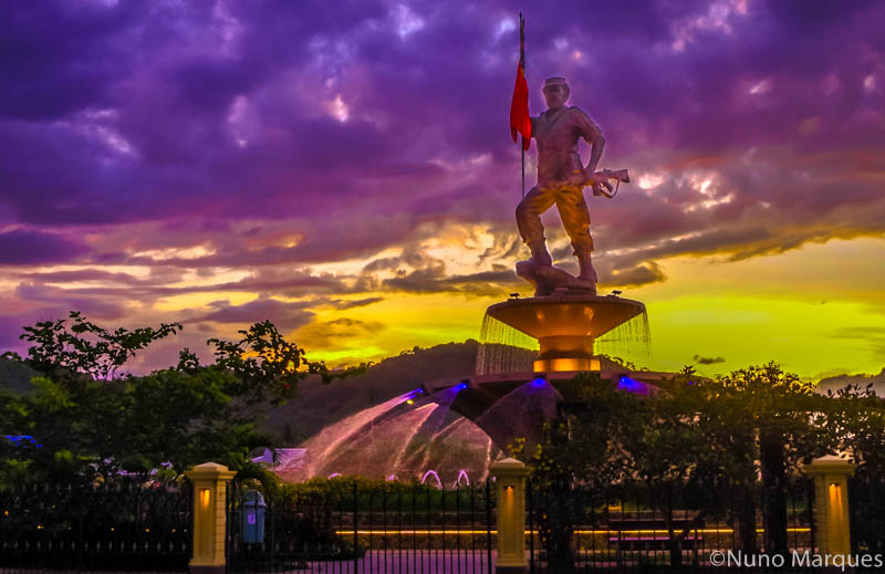 Nicolau Lobato Statue""